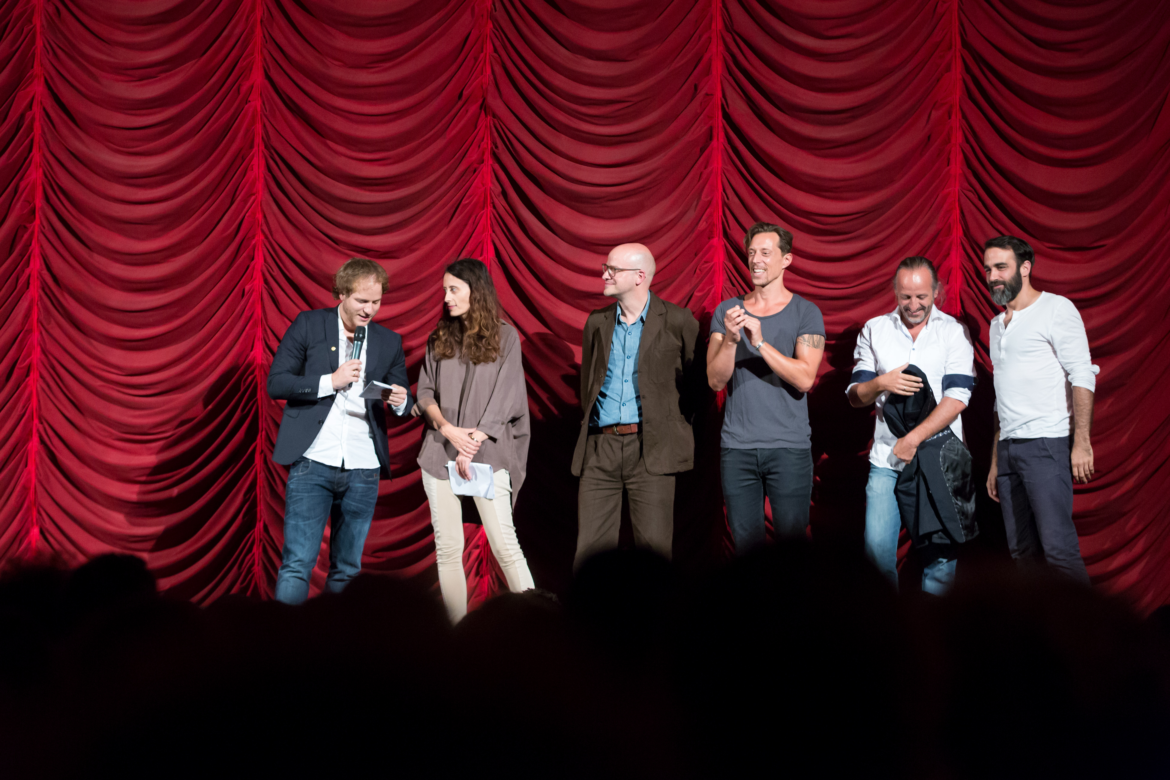 Adrian Goiginger, Tiziana Aricò, Lukas Miko, Michael Pink, Reinhold G. Moritz and Philipp Stix at the Viennese premiere of The Best Of All Worlds at Gartenbaukino, Vienna, Austria.